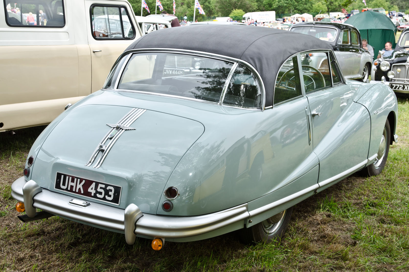 Trentham Gardens Classic Car Show 16/06/2013